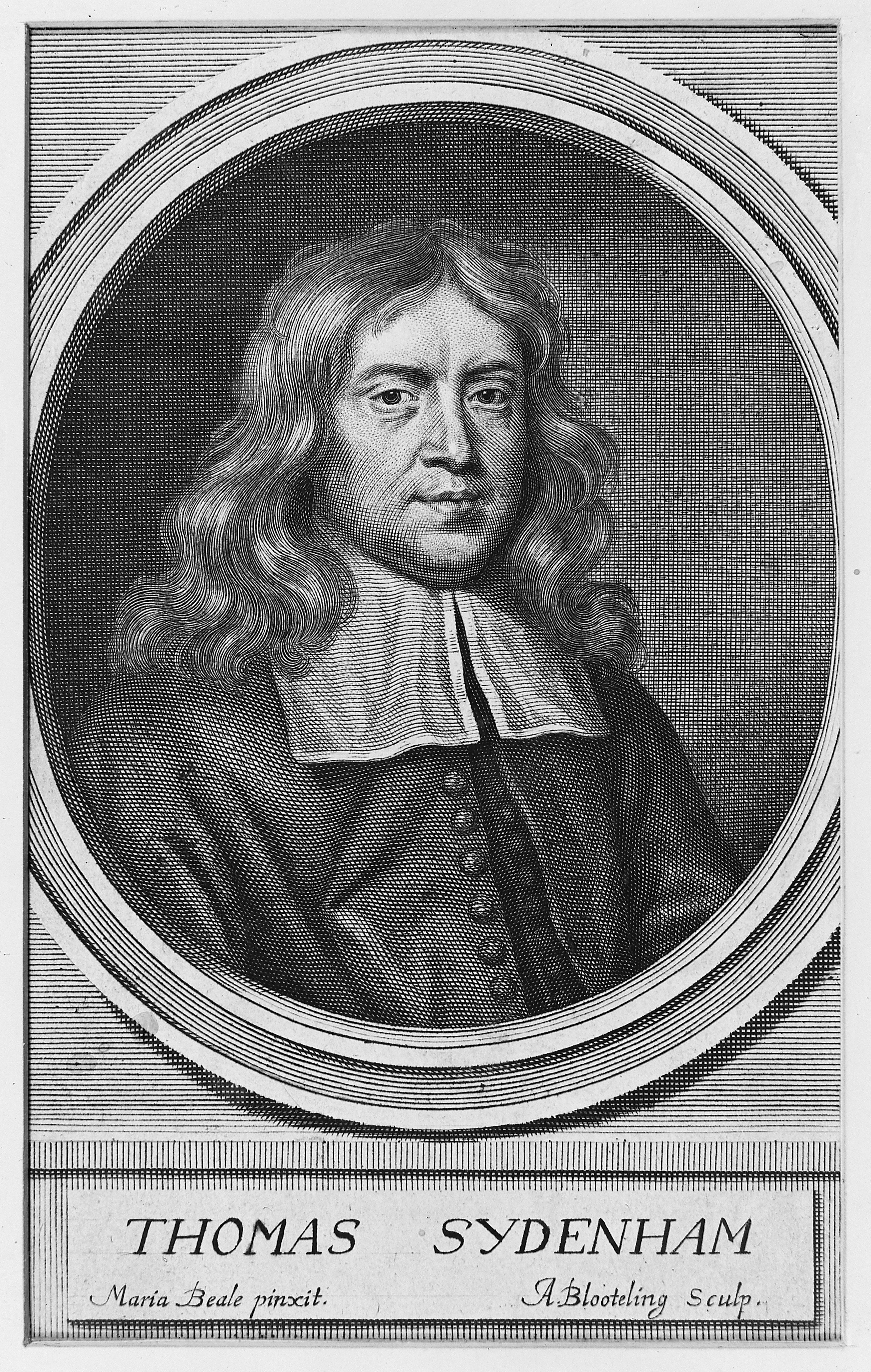 Sydenham Iconographic Collections Keywords: Thomas Sydenham